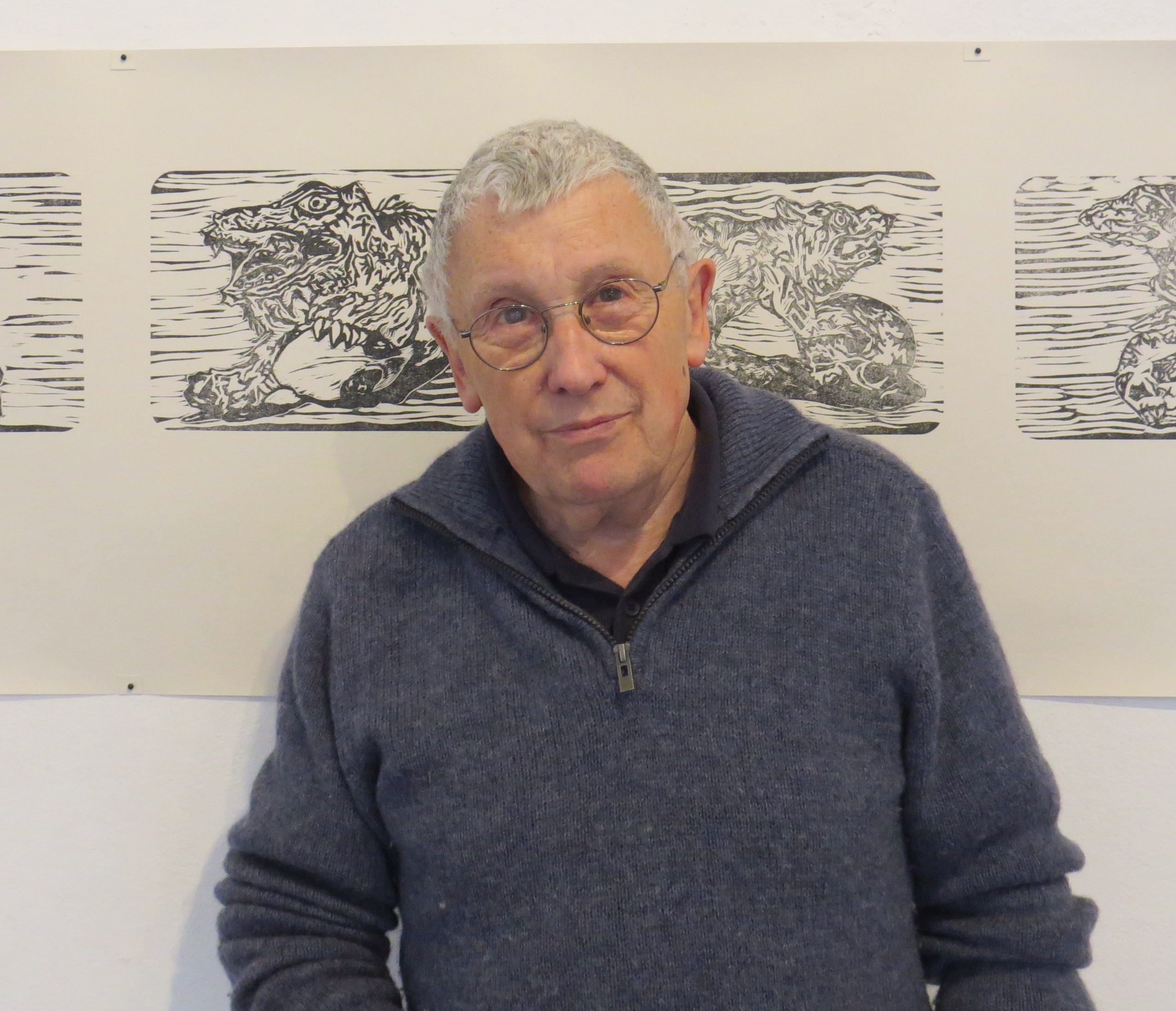 New Zealand printer Barry Cleavin, depicted in front of some of his artworks at Brett McDowell Gallery Gallery, Dunedin